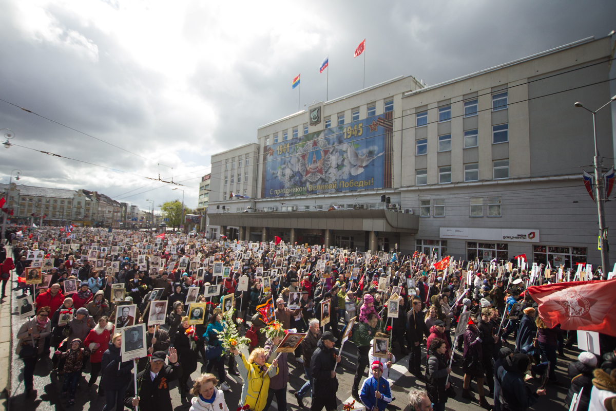 Victory Day in Kaliningrad 2017-05-09